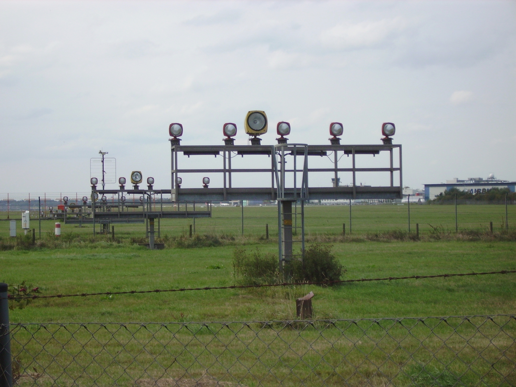 The approach lighting system at the airport of Bremen (runway 27)